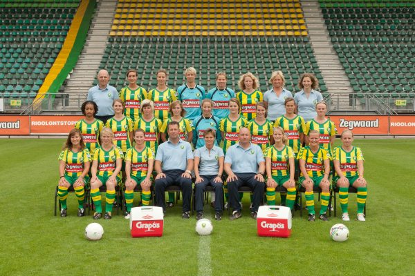 ADO Dames 2010 - 2011